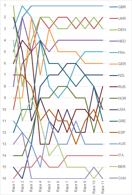 2004 Yngling Positions during the serie